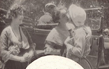 A Florida Enchantment (1914) is a silent film directed by and starring Sidney Drew and released by Vitagraph Studios. This is a advert for the film.